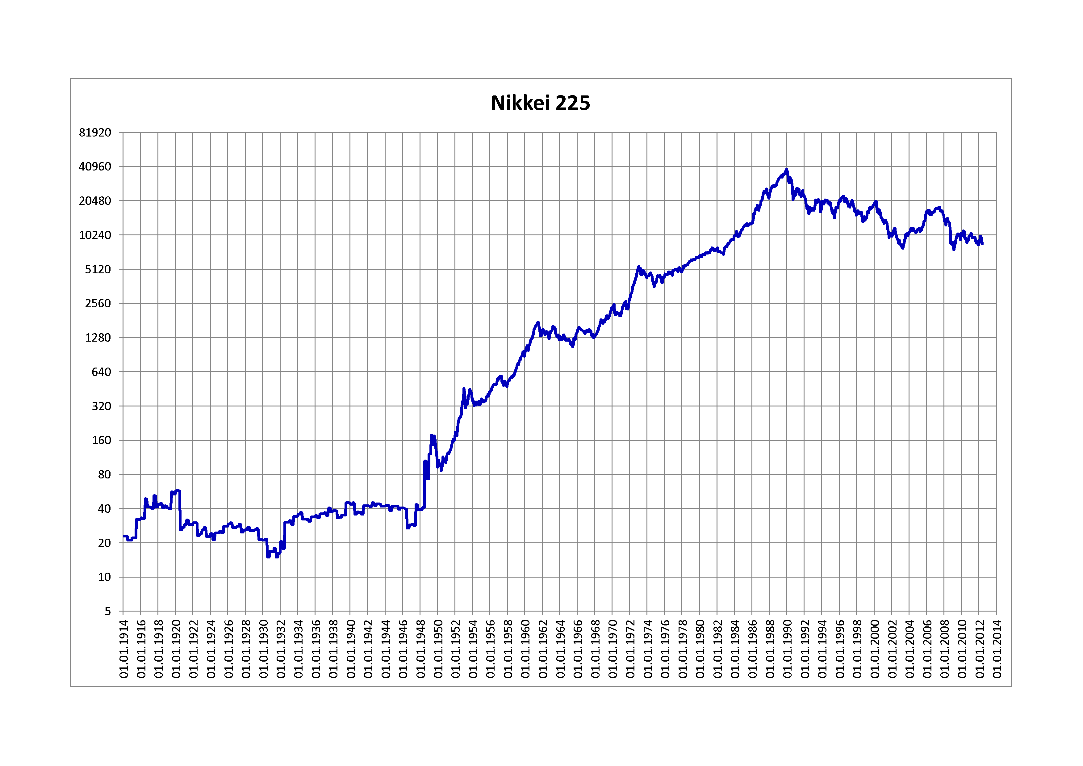 Nikkei 225 from March 1914 to May 2012 (monthly closings)